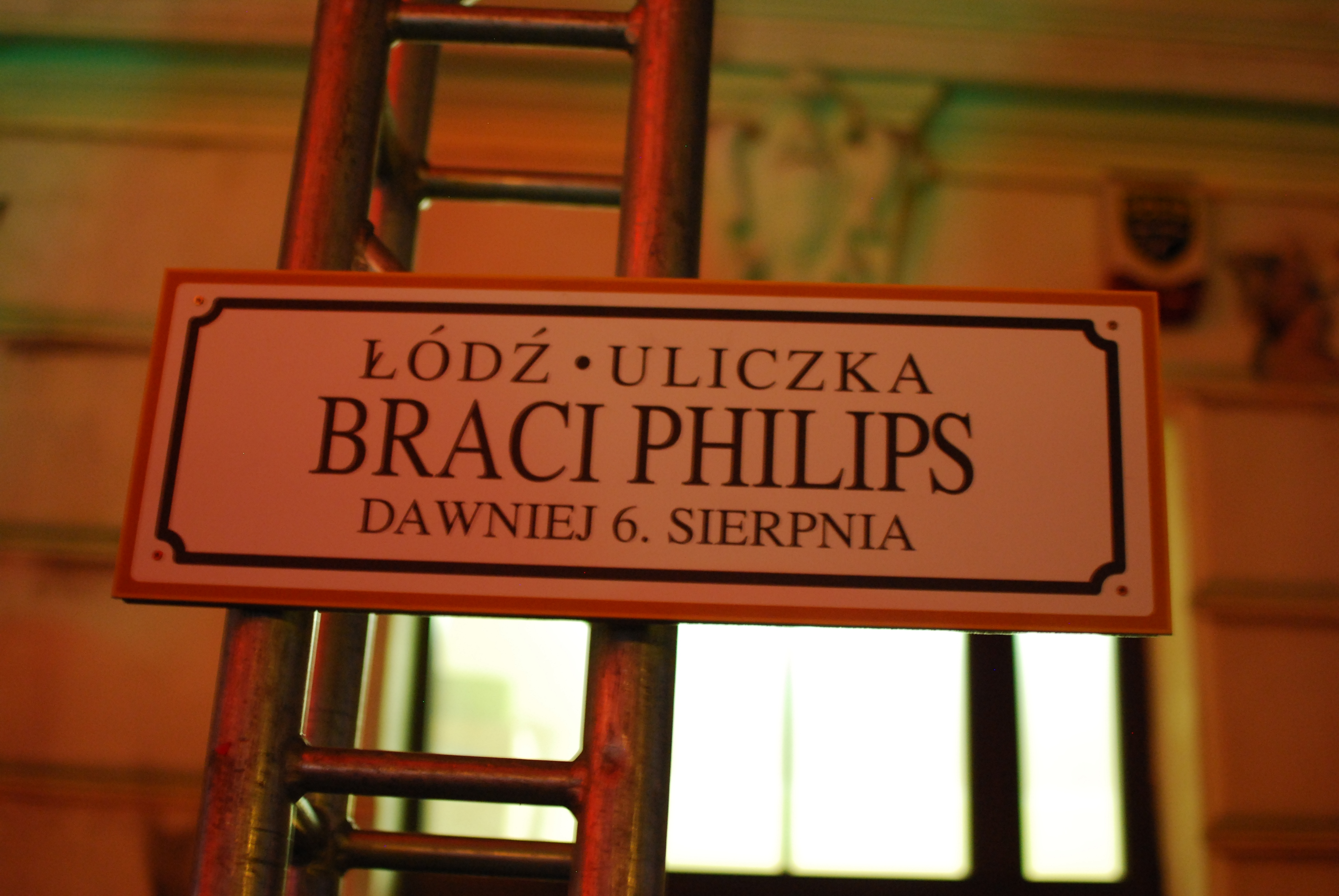 Light Move Festival Łódź 2014